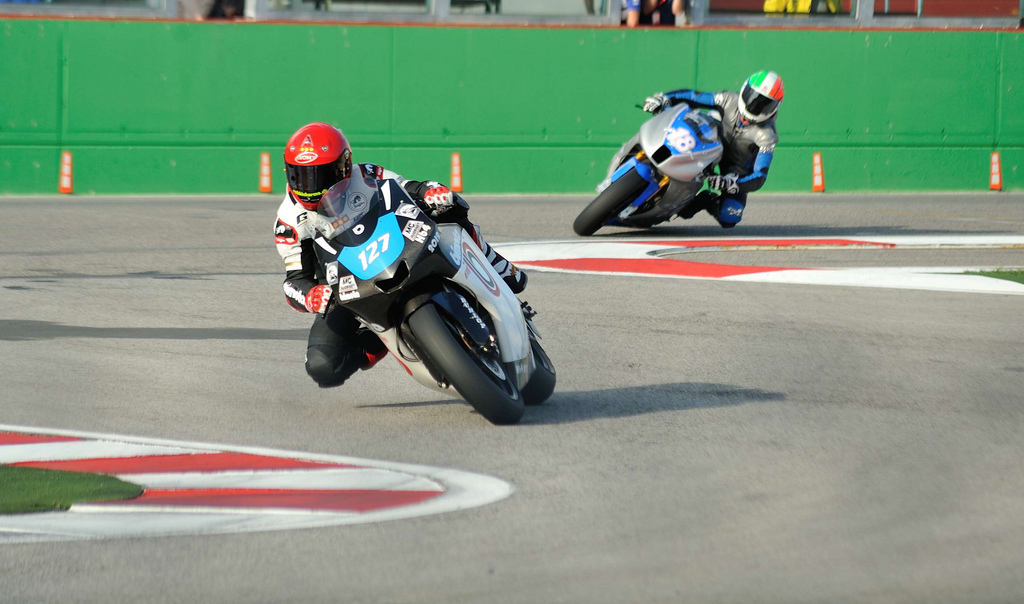 Robbin Harms on the Bimota HB4